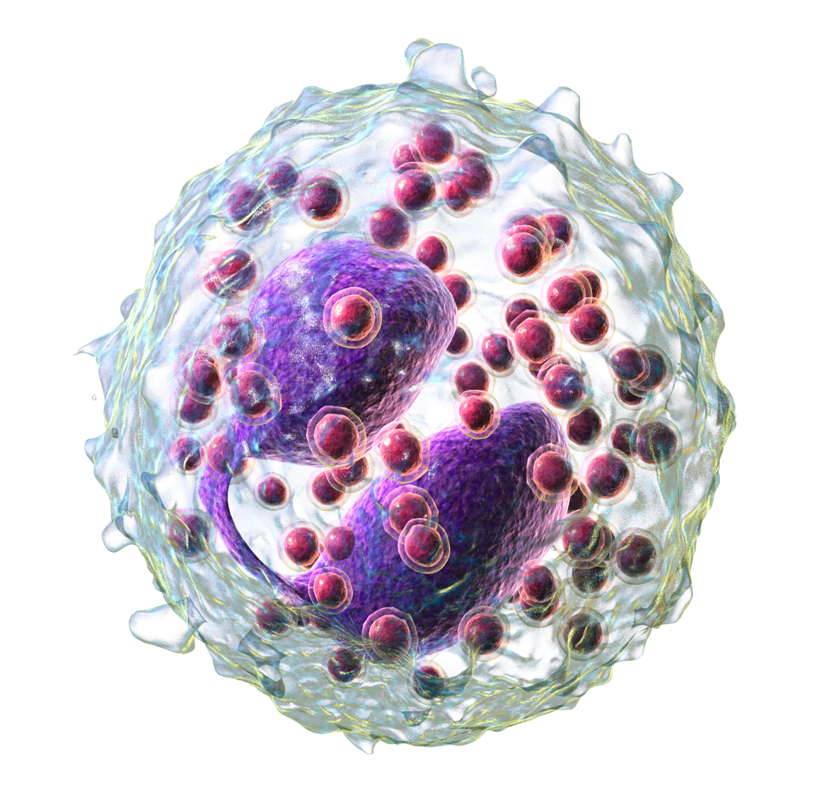 Eosinophil